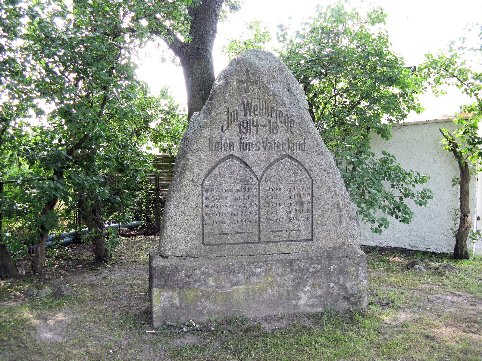 Memorial 1914-18 in Bütow, disctrict Mecklenburgische Seenplatte, Mecklenburg-Vorpommern, Germany